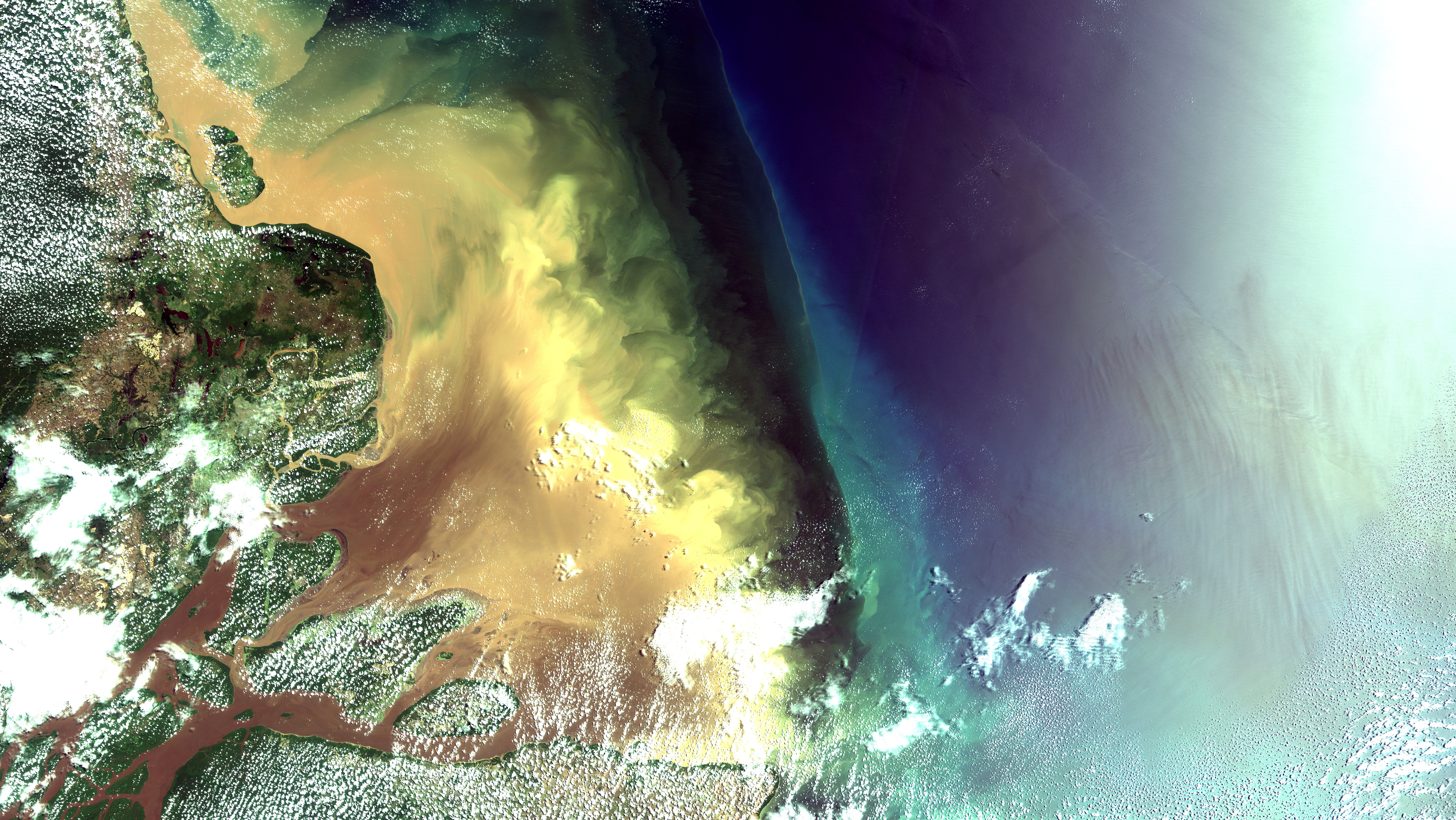 Amazon River mouth on the Atlantic, with Brazilian coast from Oiapoque at Amapá State, down S to Turiaçu, Maranhão State. N of Marajó Island, at image lower left, Amazon waters, in brown and yellow, enter 120 miles in the Ocean. On land, forest in dark green, savannas in brown and clouds in white.